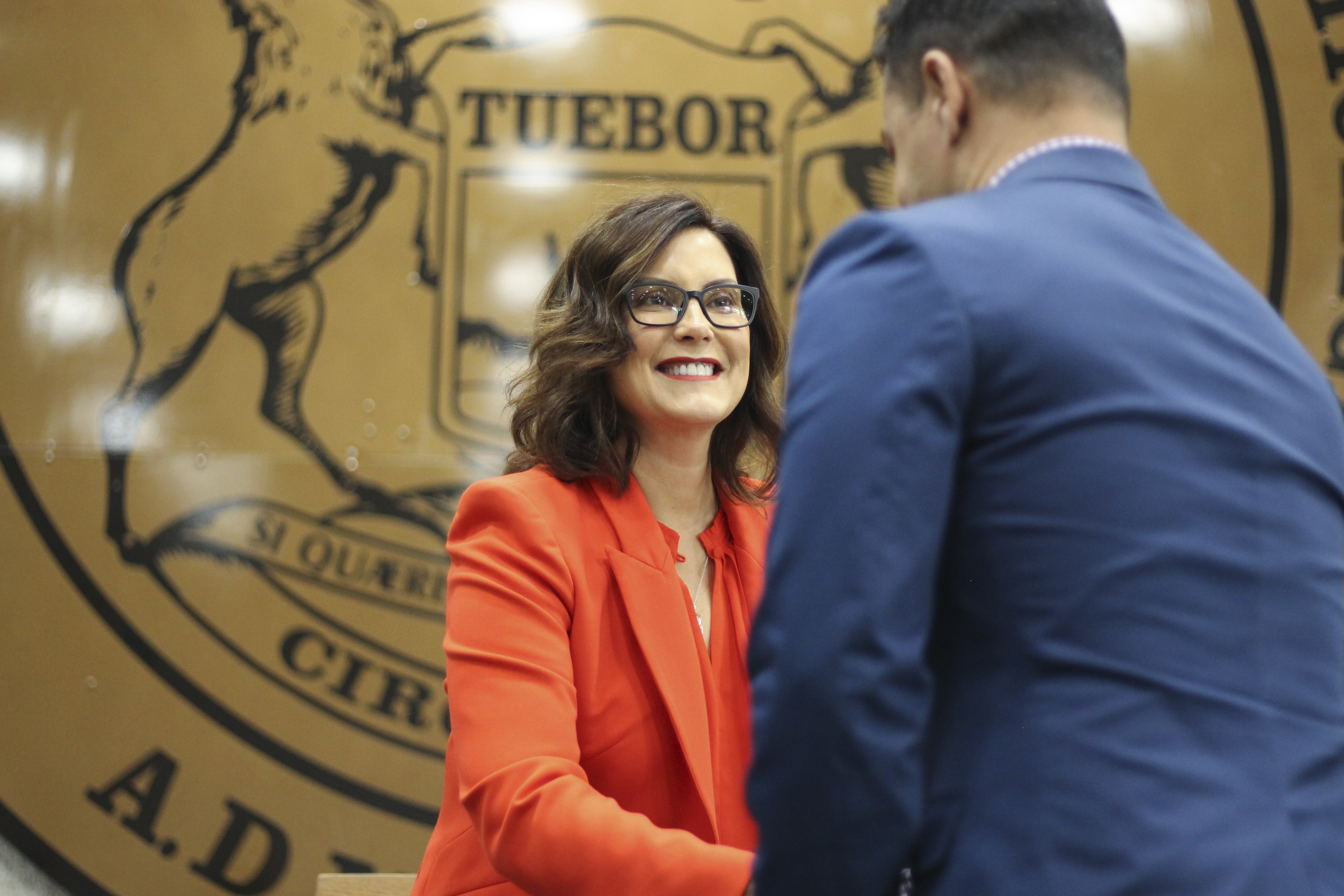 Gov. Gretchen Whitmer at Naturalization Ceremony in Detroit 2019